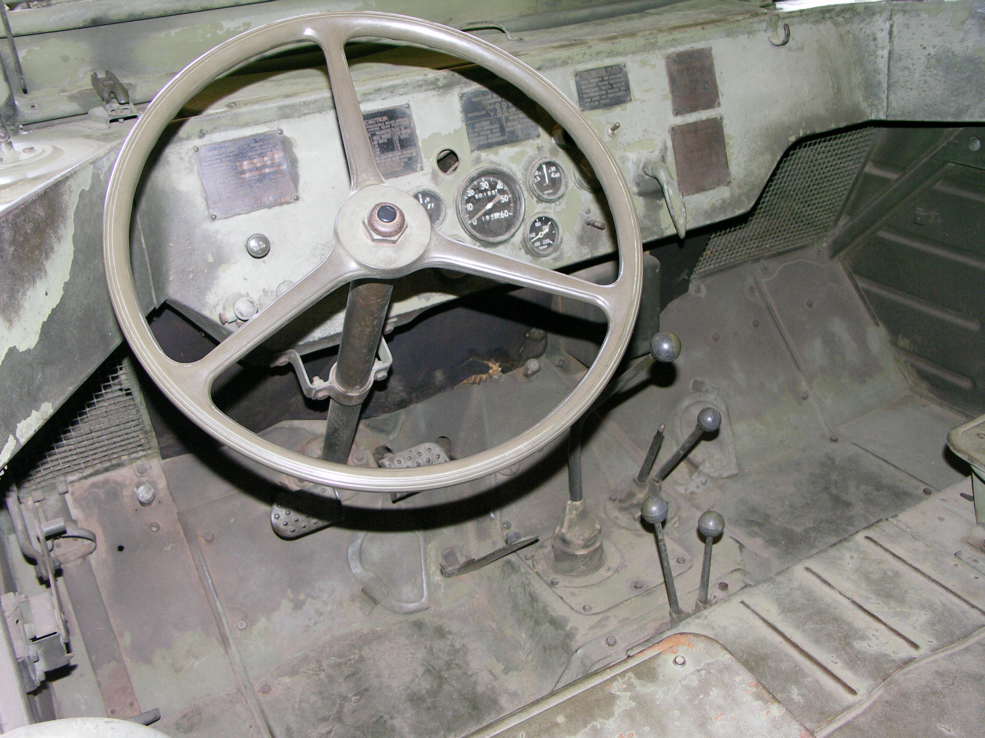 Interior of the Ford GPA at the South African National Museum for Military History